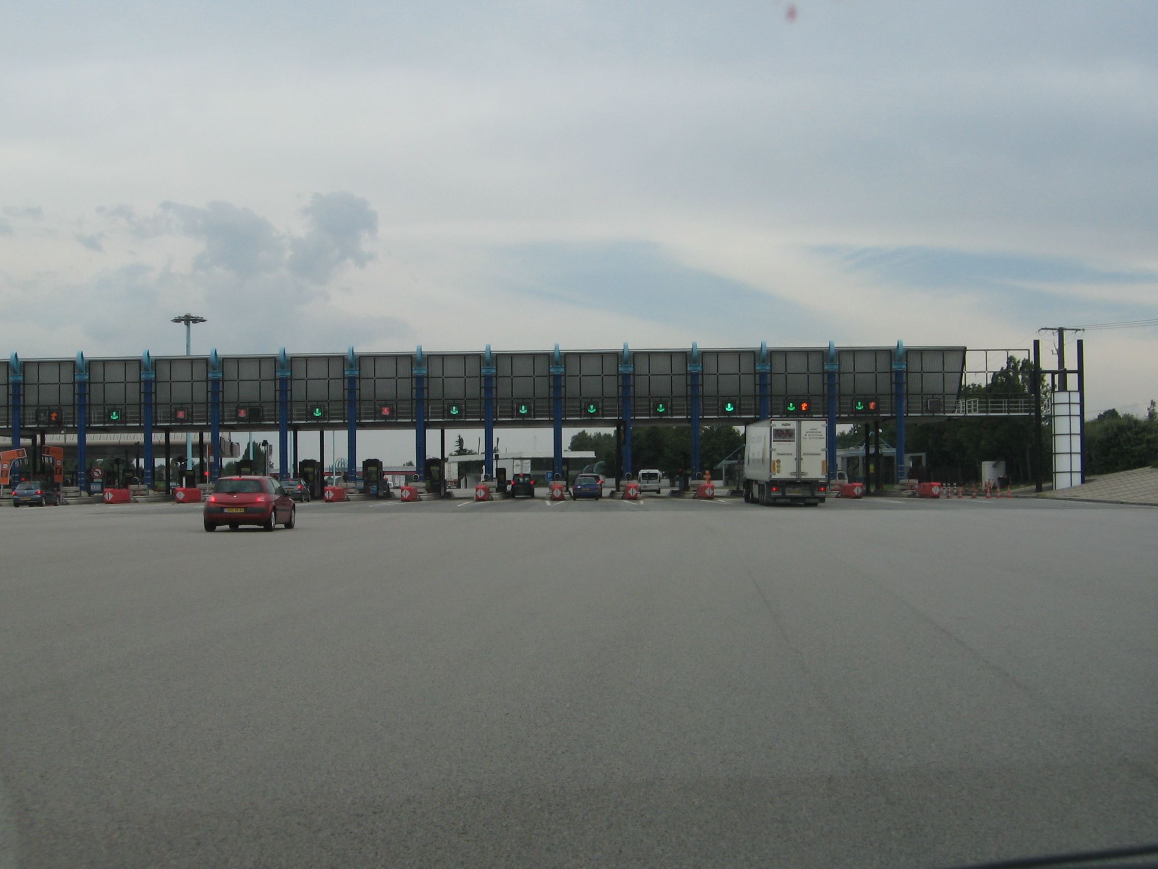 Peage, France